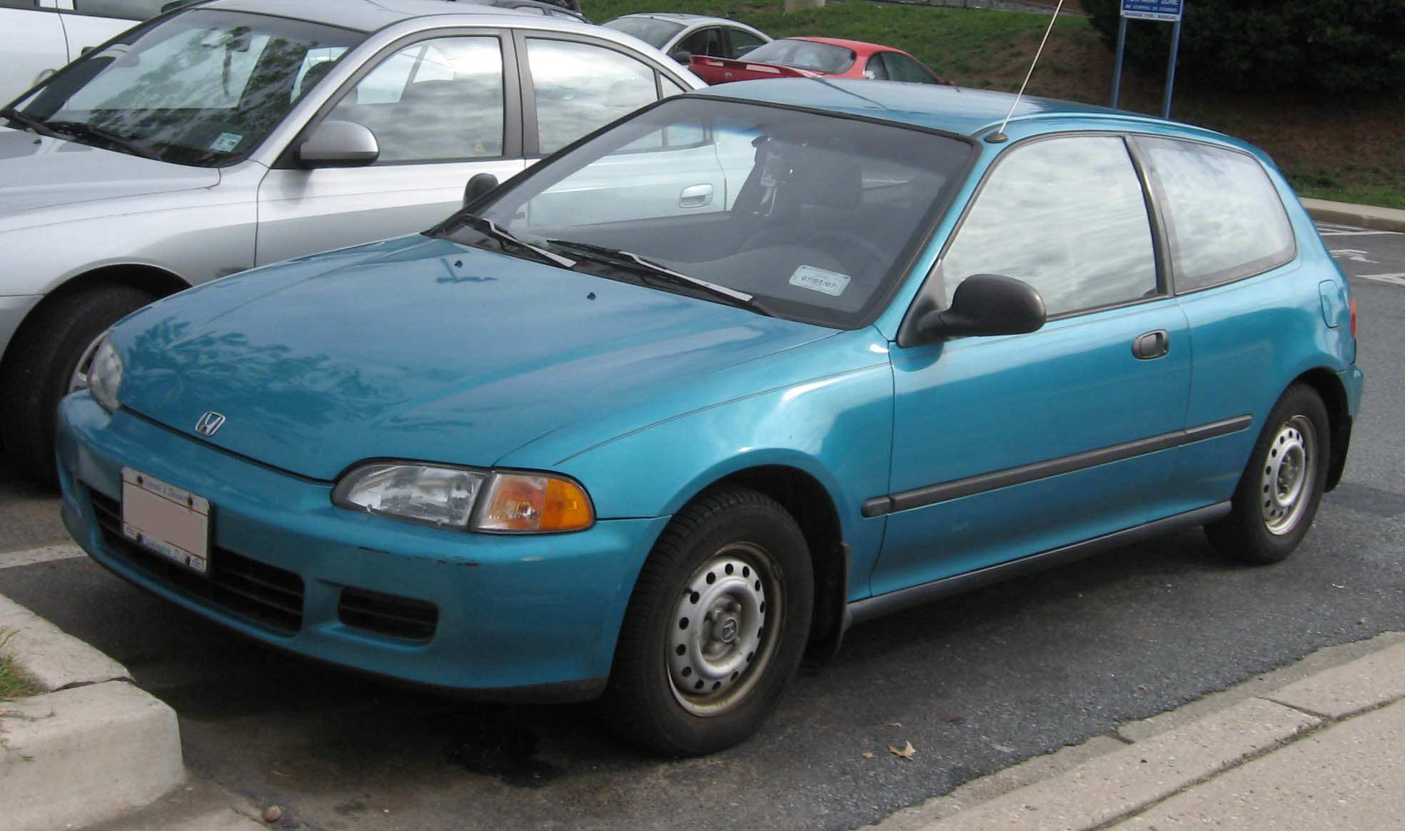 1992-1995 Honda Civic photographed in College Park, Maryland, USA.